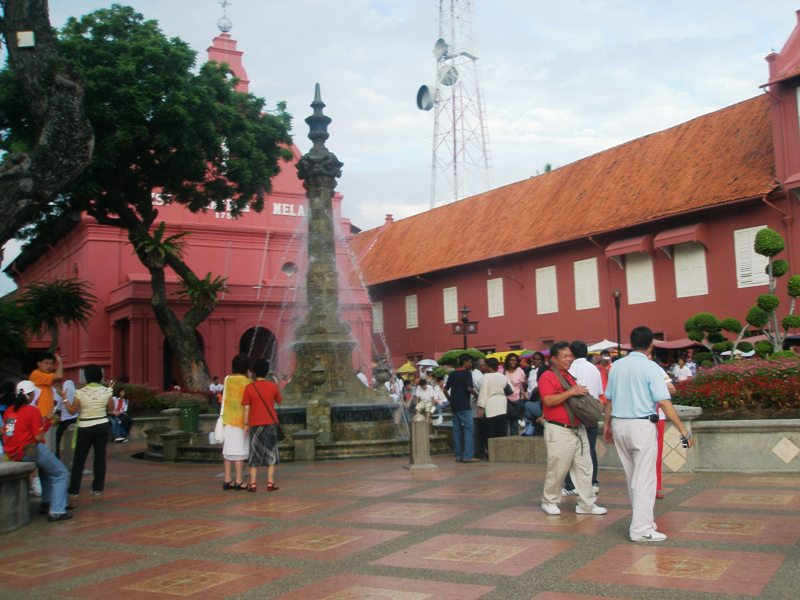 Title: Stadhuys Square Taken by: Adiput Date taken: 2007